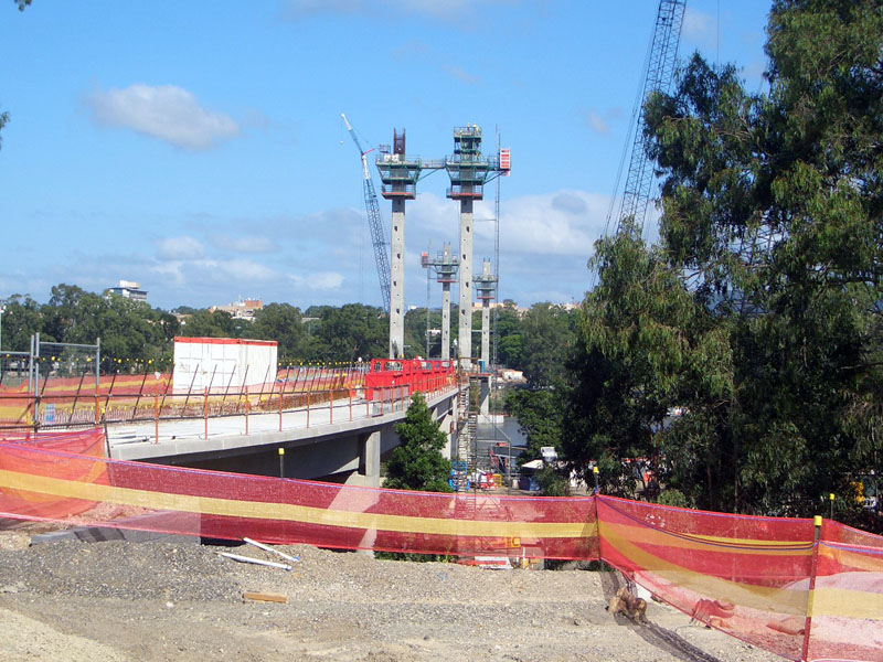 Dutton Park, oversees Brisbane River and UQ, St. Luica, QLD.